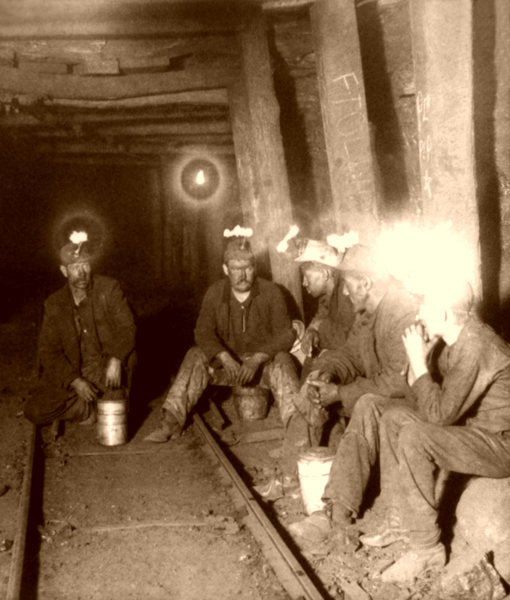 Illinois Miners 1903